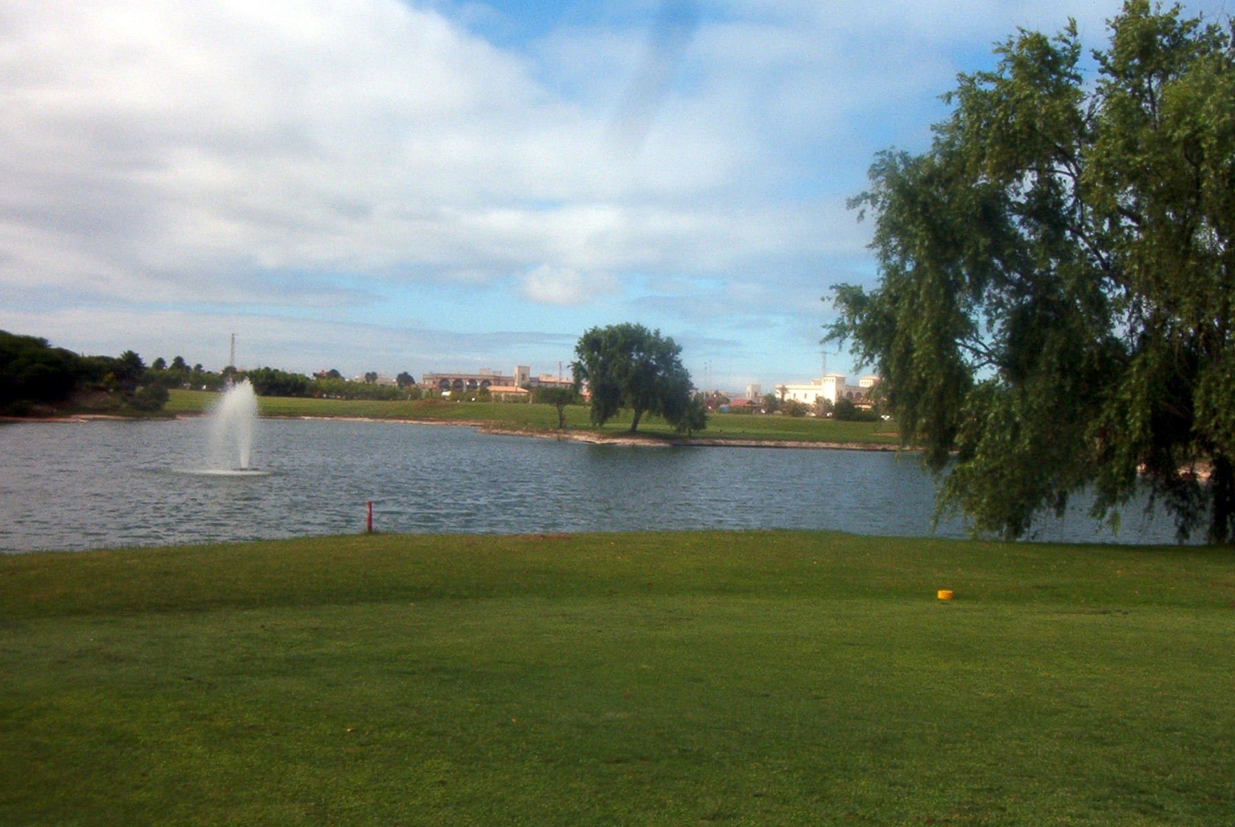 Golf course Novo Sancti Petri near Chiclana, Cádiz, Spain